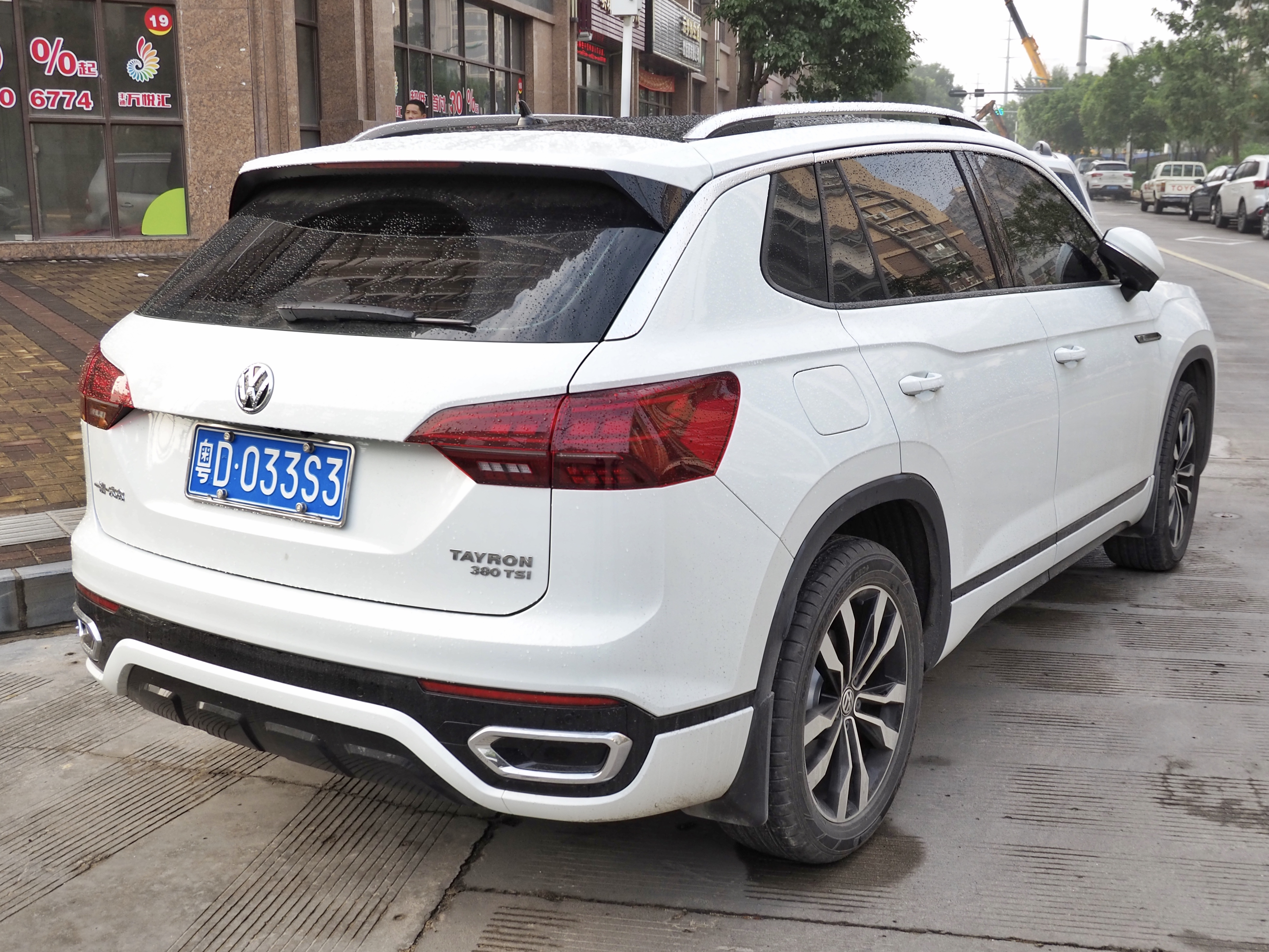 A 2018 FAW-Volkswagen Tayron photographed in Shantou, Guangdong province, China. 中文（中国大陆）: 一辆2018年的一汽大众探岳，拍摄于中国广东省汕头市。